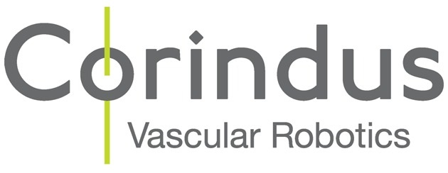 Corindus Logo